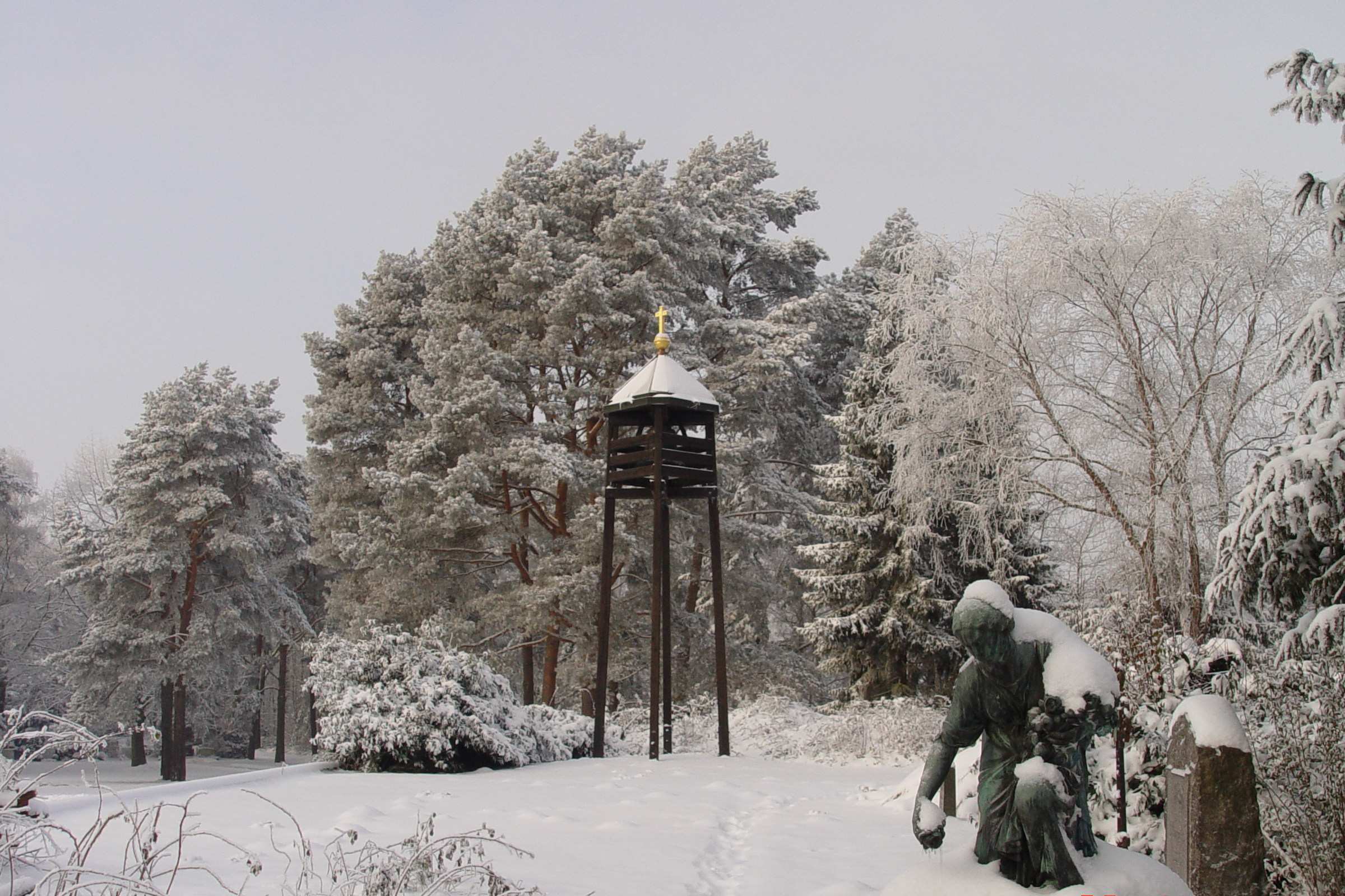 Börnsen (address August-Bebel-Str., Hamburg), Bergedorf cemetery, bell tower of chapel 2